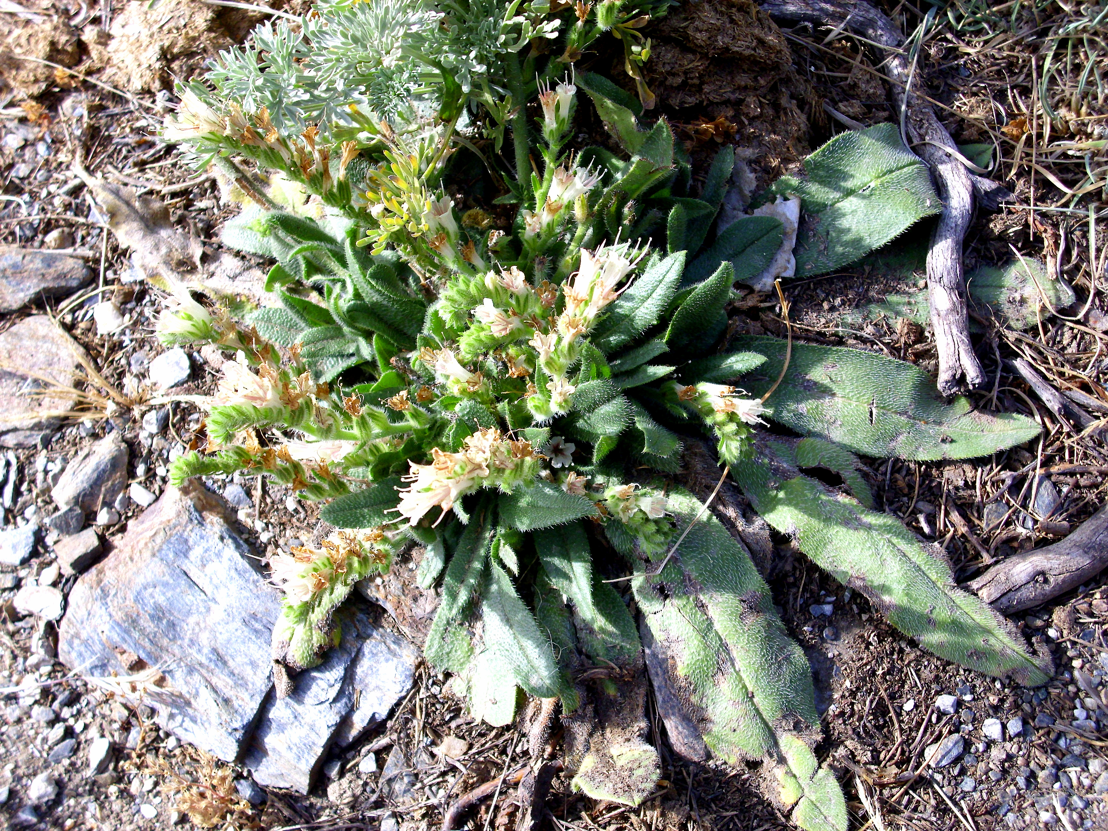 Echium flavum habit, Sierra Nevada, Spain